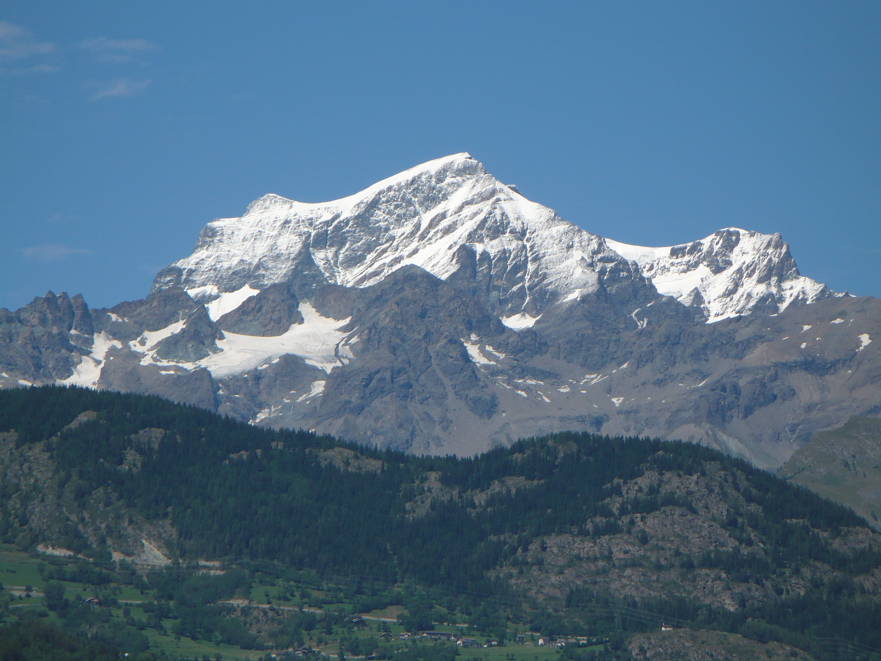 Grand Combin - Pennine Alps - Switzerland